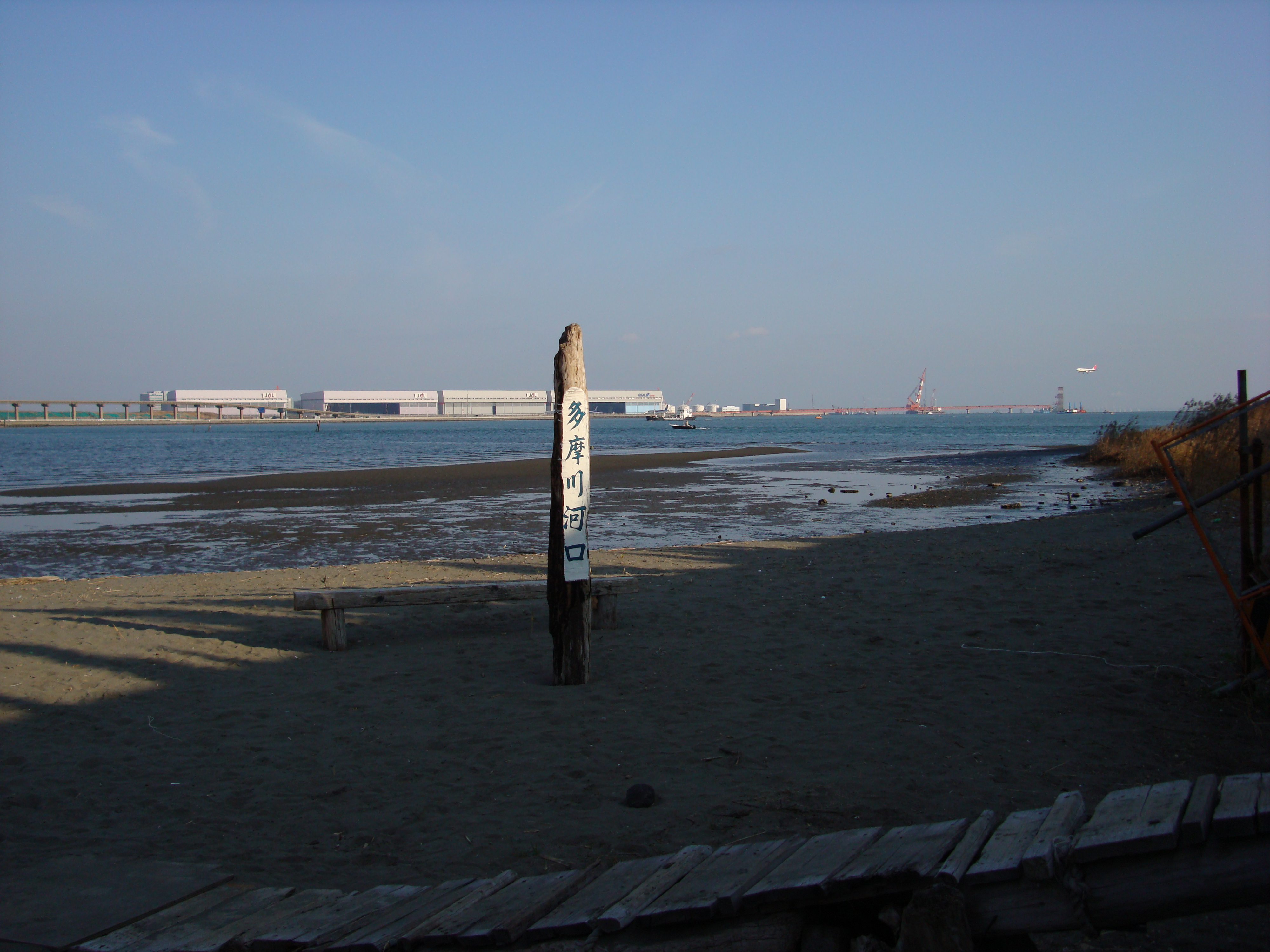 Mouth of Tama River